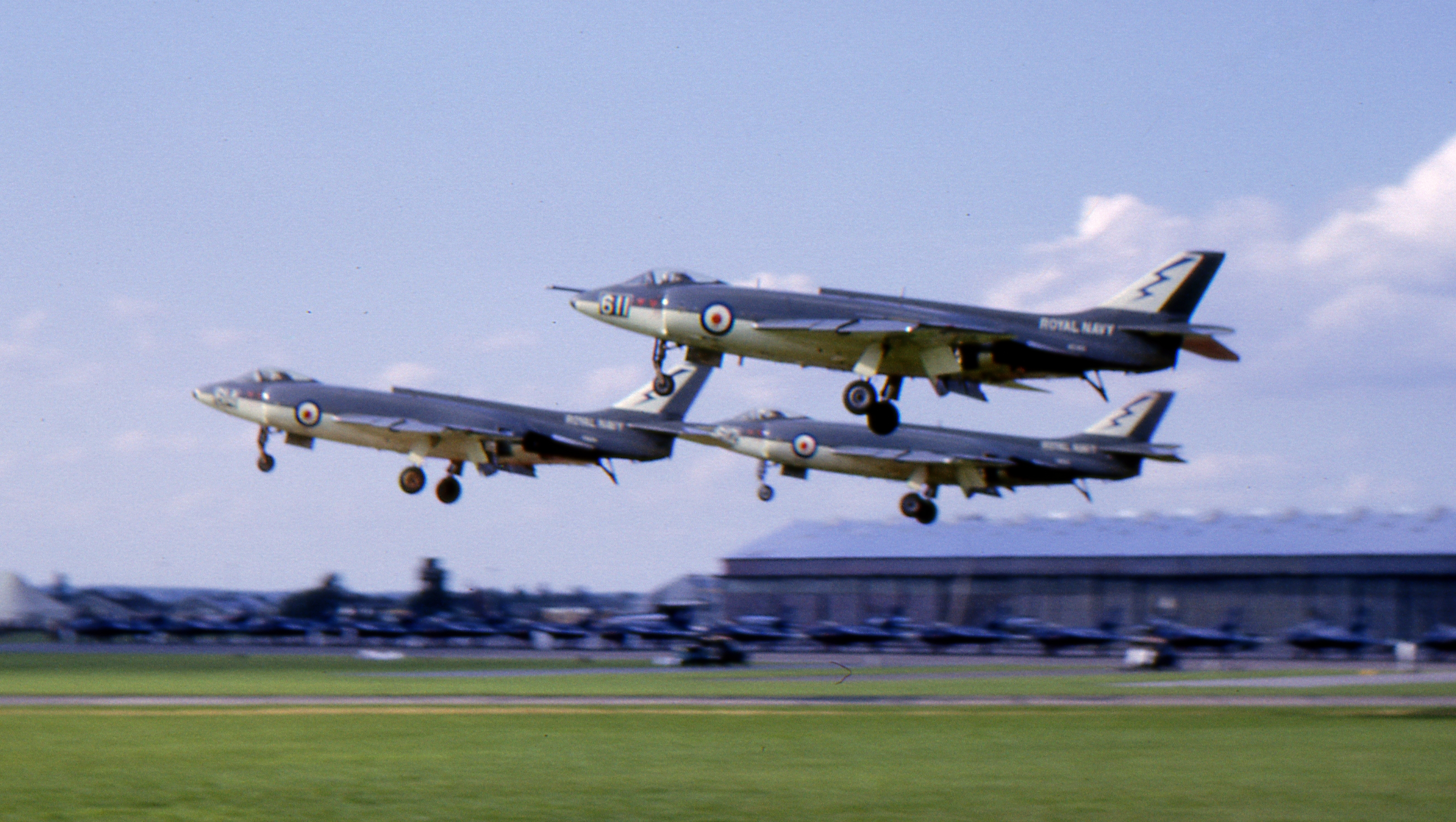 Three Supermarine Scimitar F.1s of 736 Naval Air Squadron Lossiemouth at the SBAC show, Farnbrough 8 September 1962. '611' (XD265) in the foreground was lost later that year (15 November) in a birdstrike at 400 feet: the pilot ejected safely.